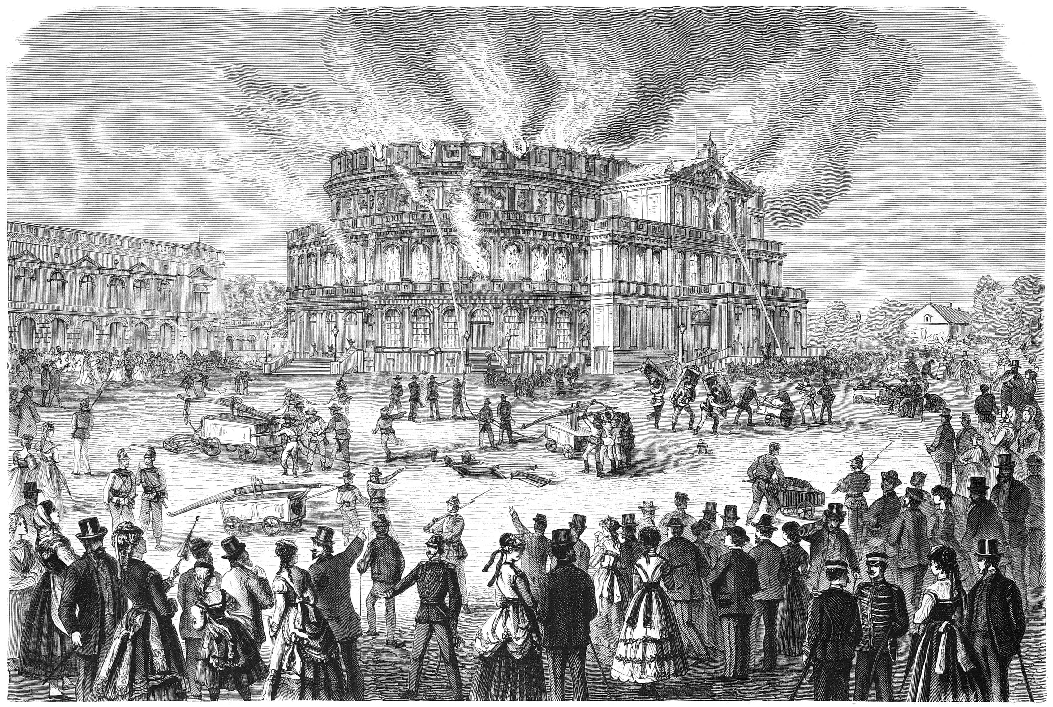 caption: "Der Brand des Hoftheaters in Dresden. Nach der Natur aufgenommen."